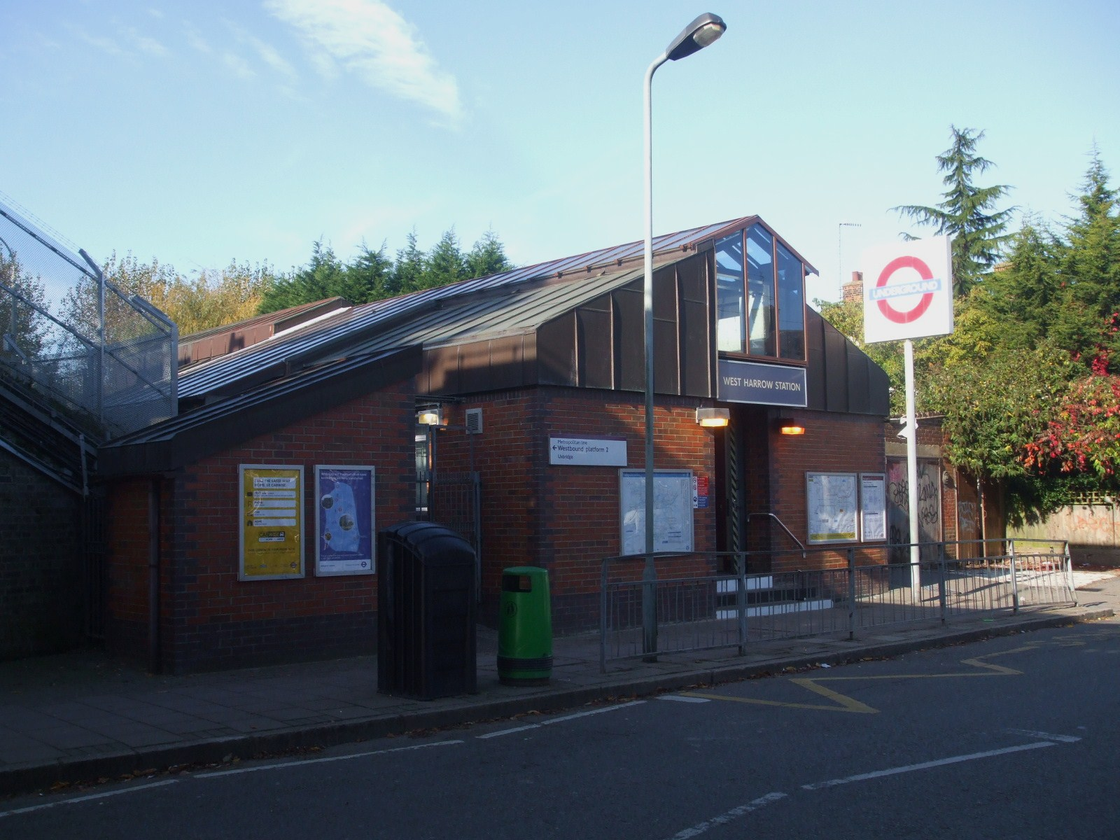 West Harrow tube station